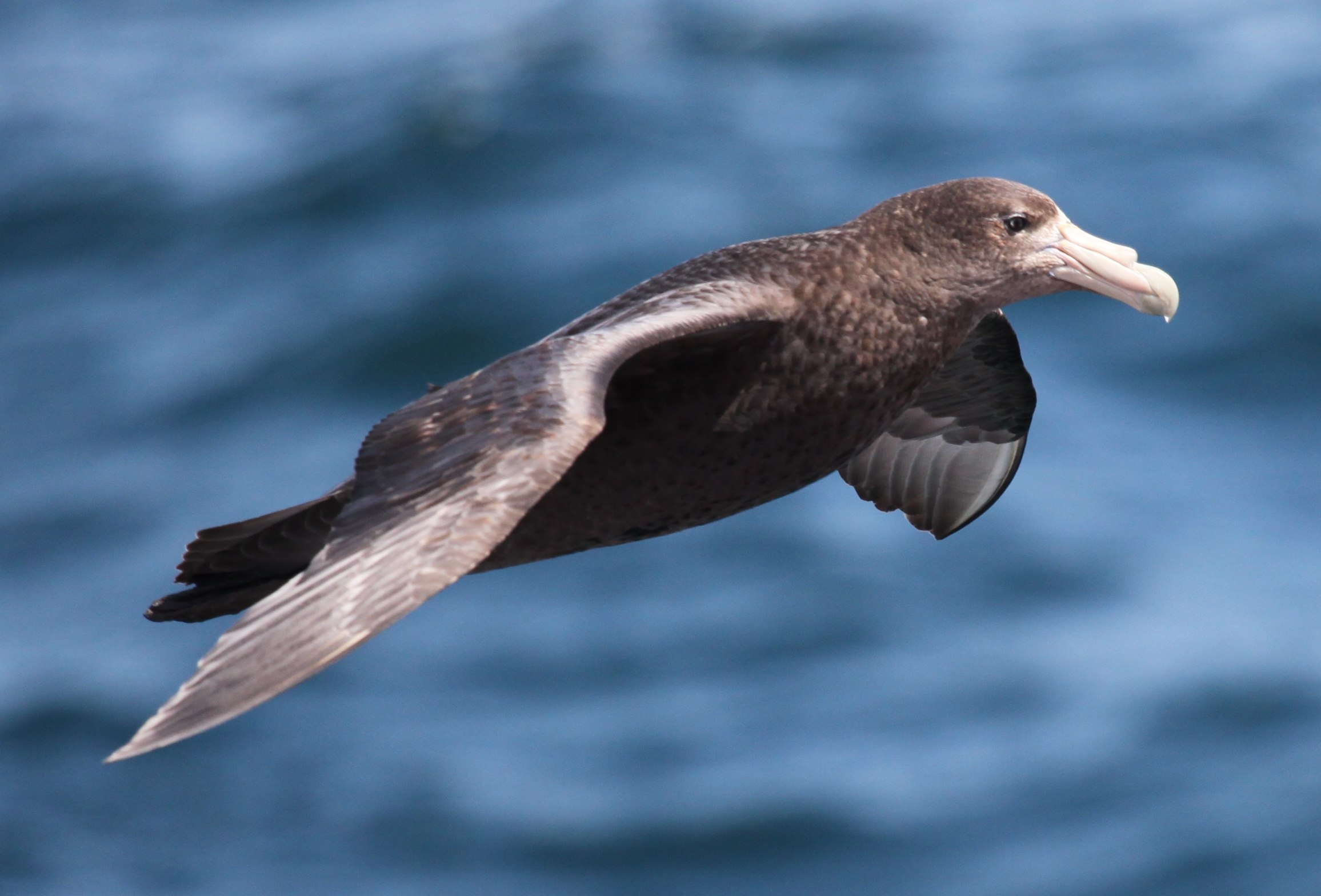 Between Tierra del Fuego and the Falkland Islands.